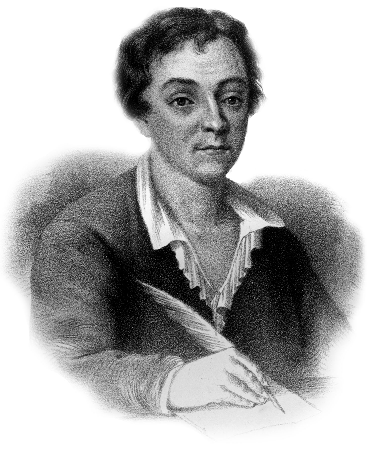 Ippolit Bogdanovich